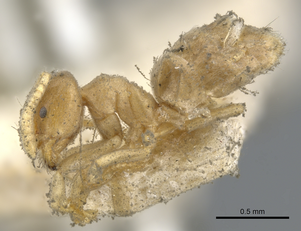 Chronoxenus myops type material